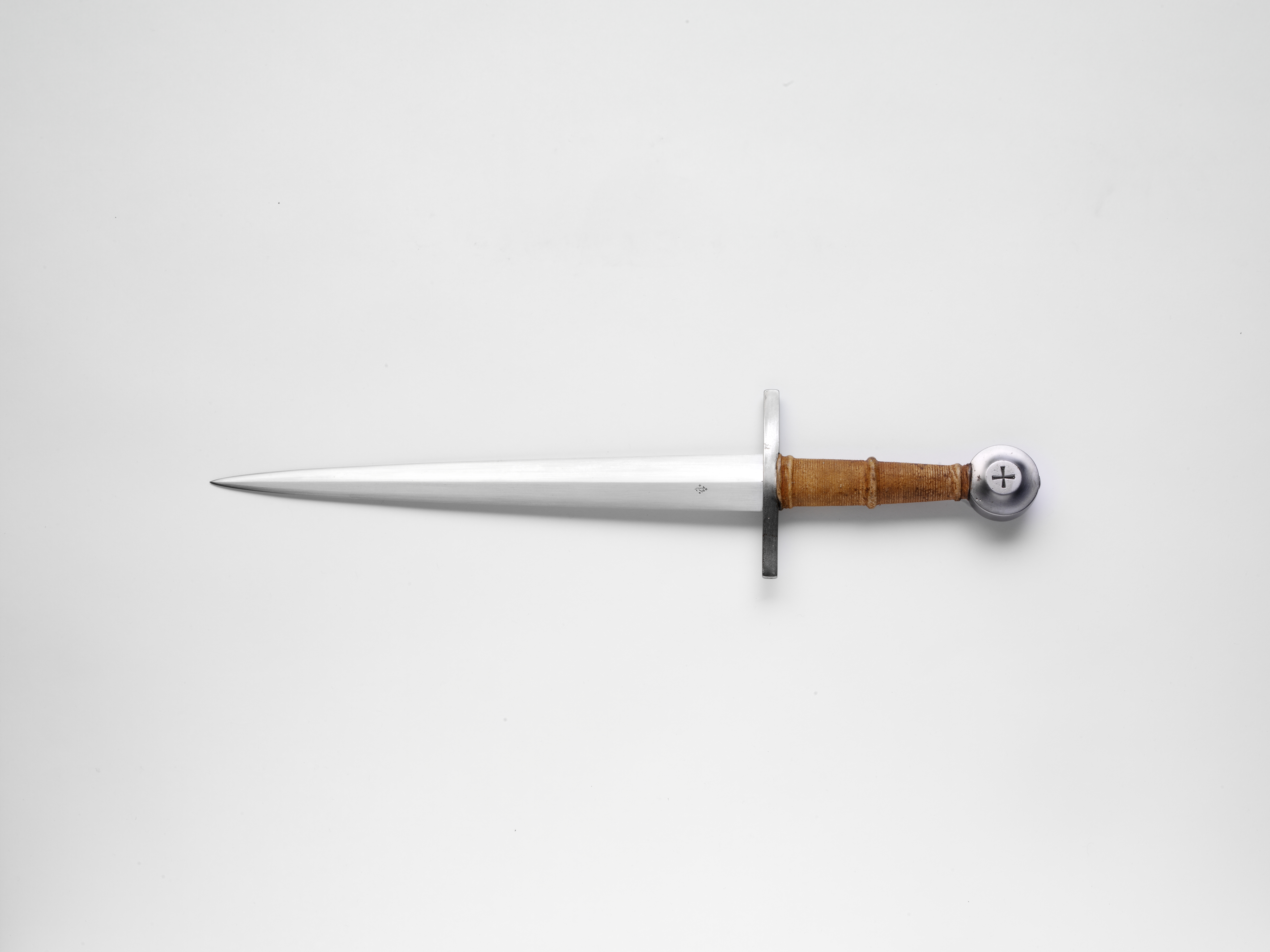 The Arn Templar Dagger Limited Edition Official Movie Dagger